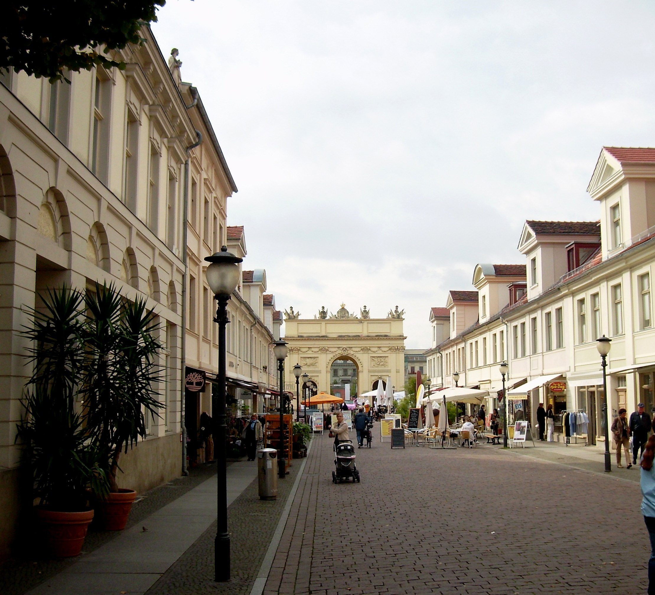 Brandenburger Strasse in Potsdam with Brandenburg Gate in the background